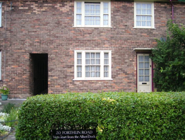 20 Forthlin Road, the childhood home of Paul McCartney. Taken in July/August 2006.